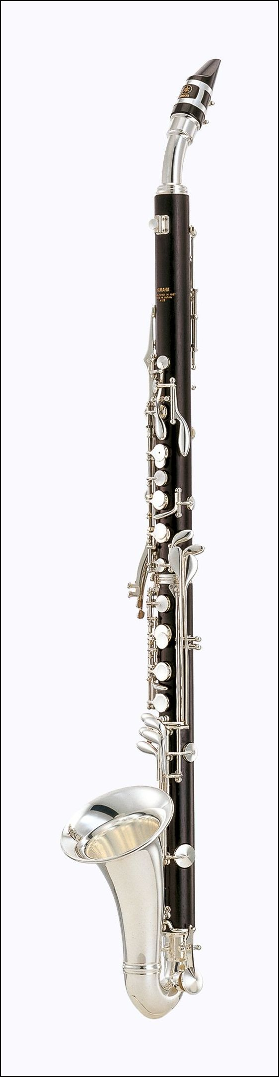 Yamaha Alto clarinet, model YCL-631 II. From the 600 series (professional series), silver-plated nickel silver keys and bell, grenadilla body, range to low E flat